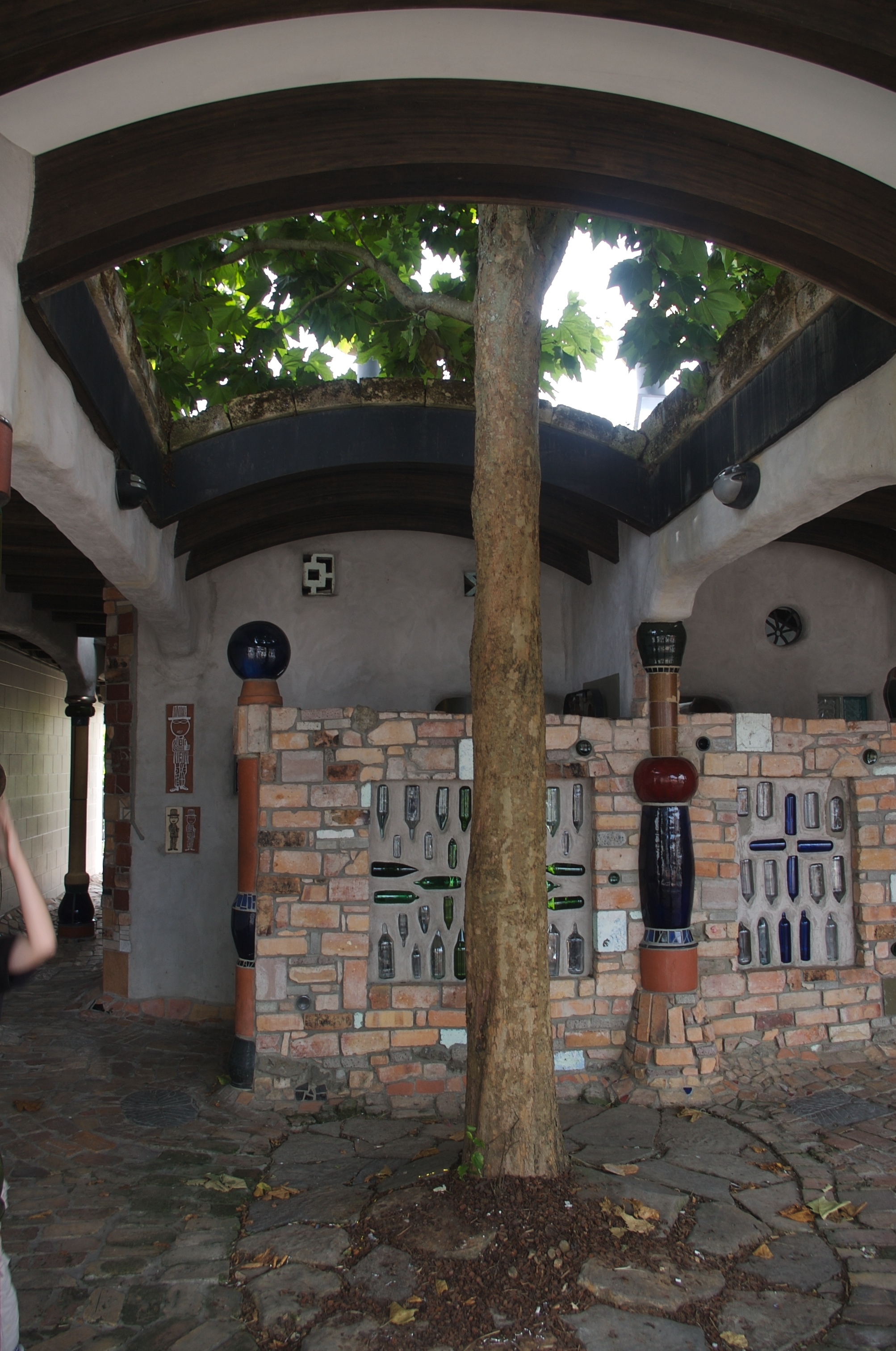 Hundertwasser Toilets, Kawakawa - interior. The famous Austrian artist and eco-architect Friedensreich Hundertwassert designed these toilets for the NZ city of Kawakawa.